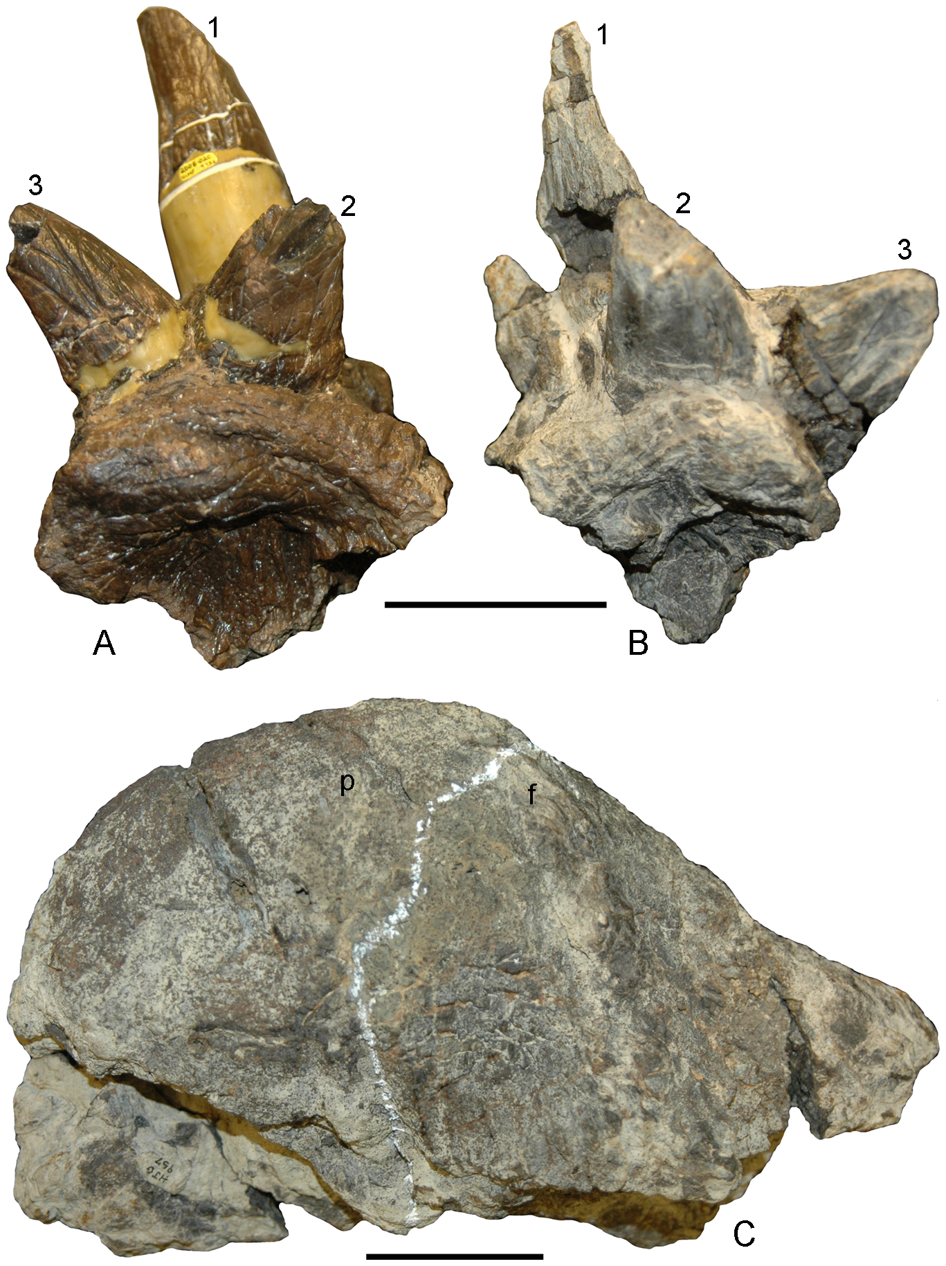 The distinctive squamosal ornamentation and relatively high, narrow frontoparietal dome of Stygimoloch spinifer. The holotype left squamosal (UCMP 119433) in (A) and a right squamosal (UCMP 131163) in (B) in posterior view. UCMP 131163 was found associated with the relatively high, narrow frontoparietal dome in right lateral view in (C). The frontoparietal suture is highlighted in white. The intrafrontal suture is not visible on the dorsal surface. Numbering sequence (1–3) of horns and nodes in (A) and (B) from Galton and Sues [31]. Scale bars are 5 cm.